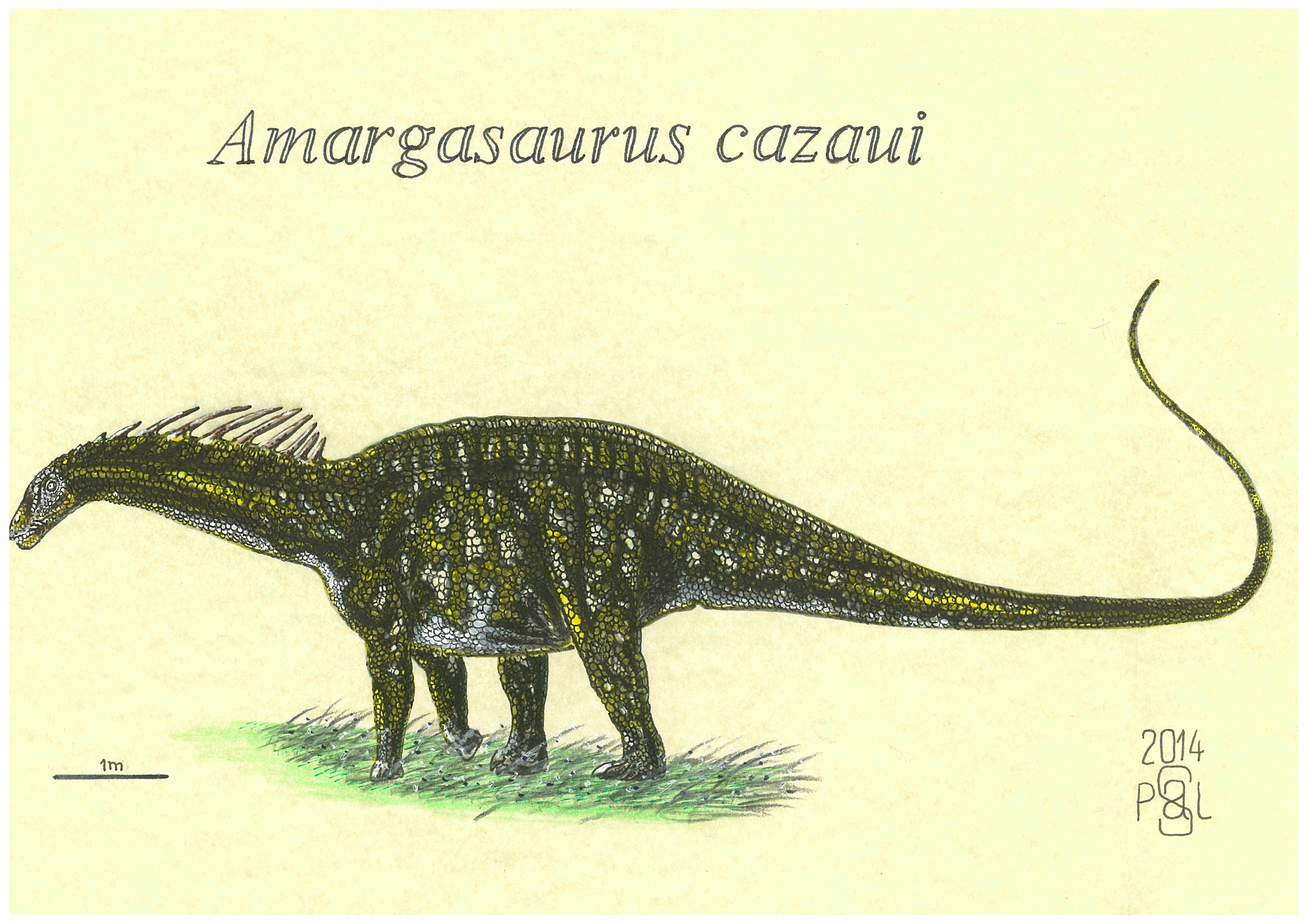 Life restoration based on Scott Hartman skeletal DinA4. Felt pens and liquid chalk on parchment 170 g/m2. Only traditional art. No digital adjustment. Year 2014.